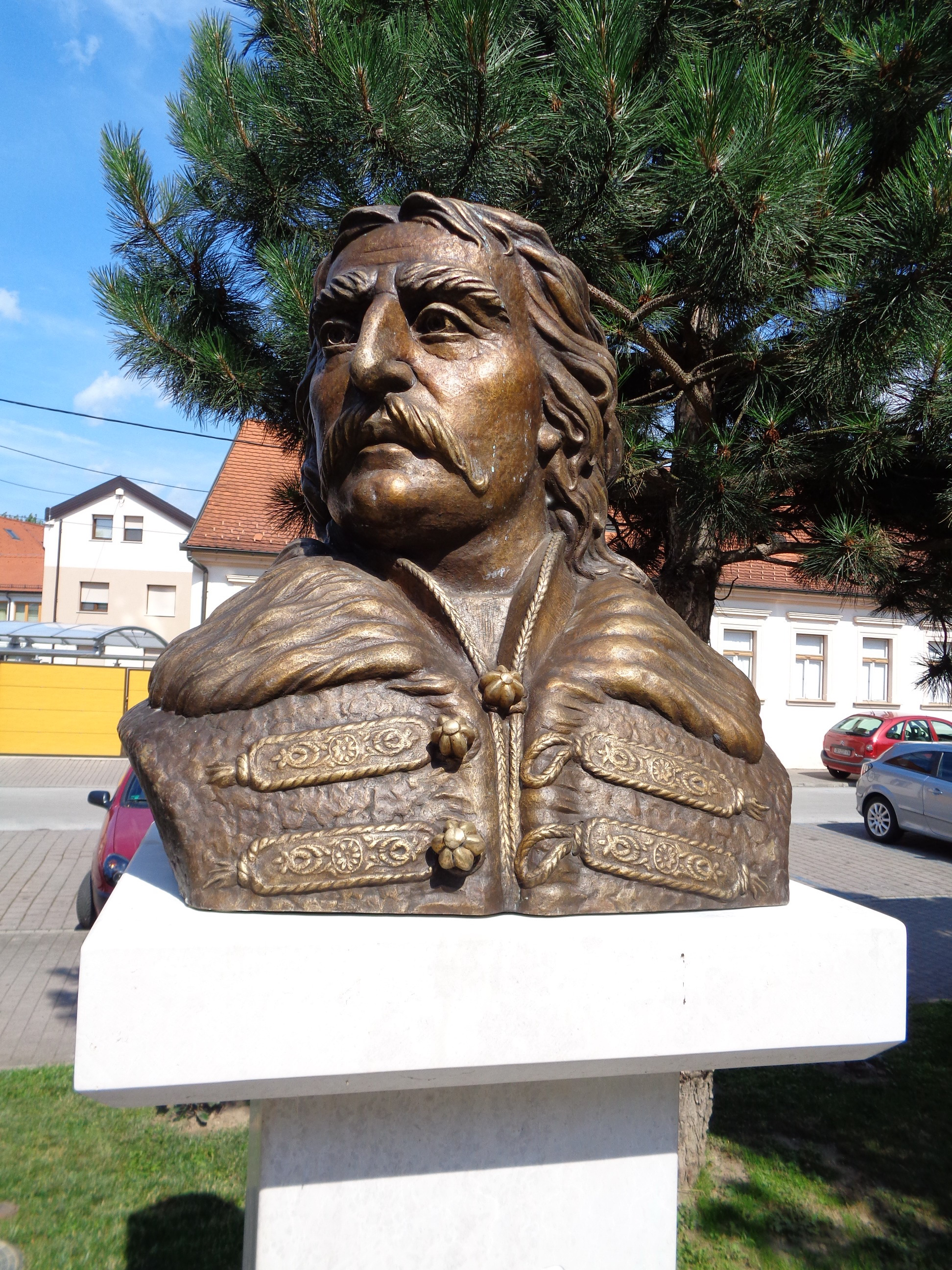 Count Petar Zrinski /Peter of Zrin/ (1621-1671), Ban (Viceroy) of Croatia - bust in Čakovec, Croatia, made by sculptor Mihael Štebih (close-up)